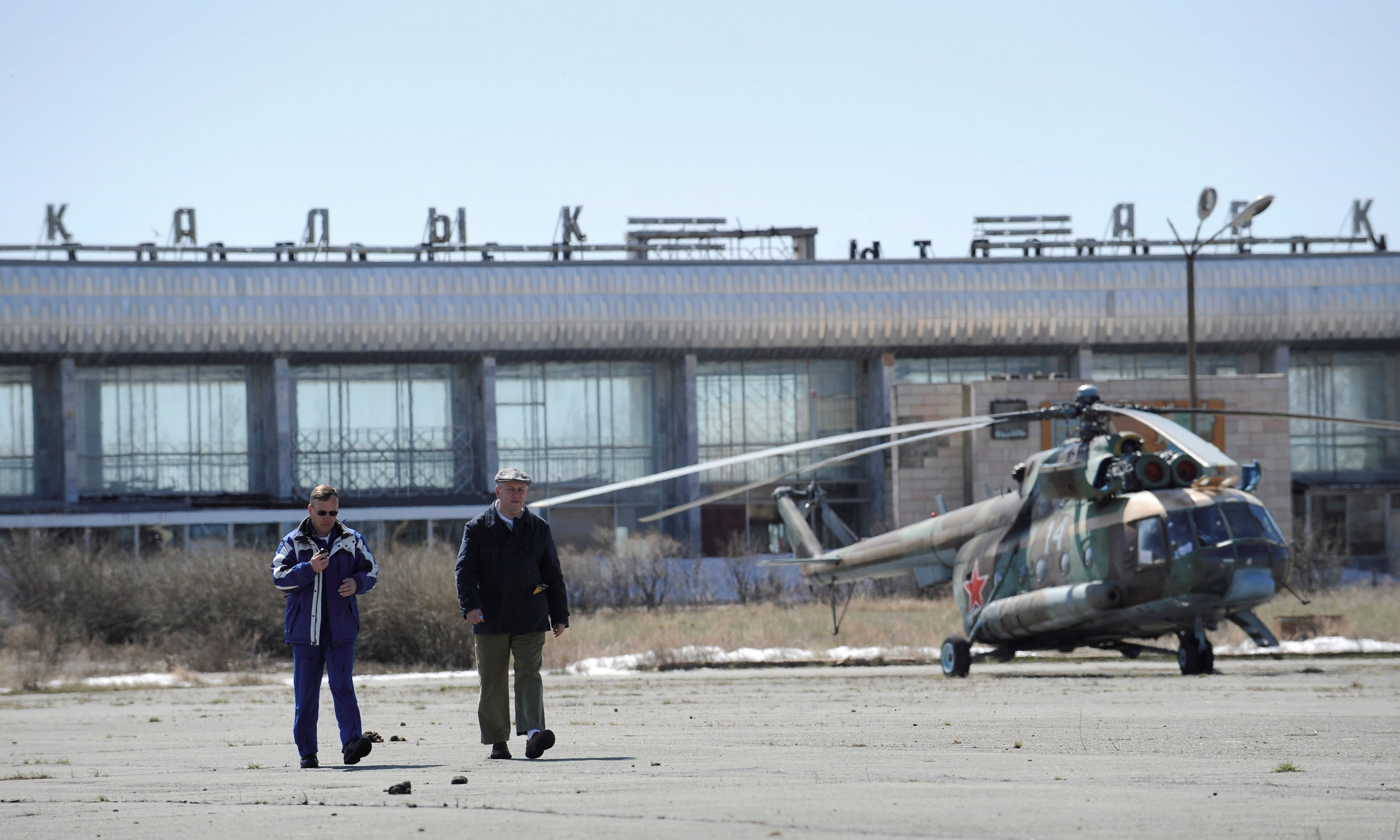 Steve Lindsey (left), chief of NASA's astronaut office, and interpreter Paul Kharmats wait at the Arkalyk airport in Kazakhstan as Russian helicopters are refueled. Arkalyk was used as one of the helicopter staging areas for the landing of the Soyuz TMA-11 spacecraft carrying NASA astronaut Peggy Whitson, Expedition 16 commander; Russian Federal Space Agency cosmonaut Yuri Malenchenko, flight engineer and Soyuz commander; and South Korean spaceflight participant So-yeon Yi. The Soyuz TMA-11 capsule landed April 19, 2008 in central Kazakhstan.